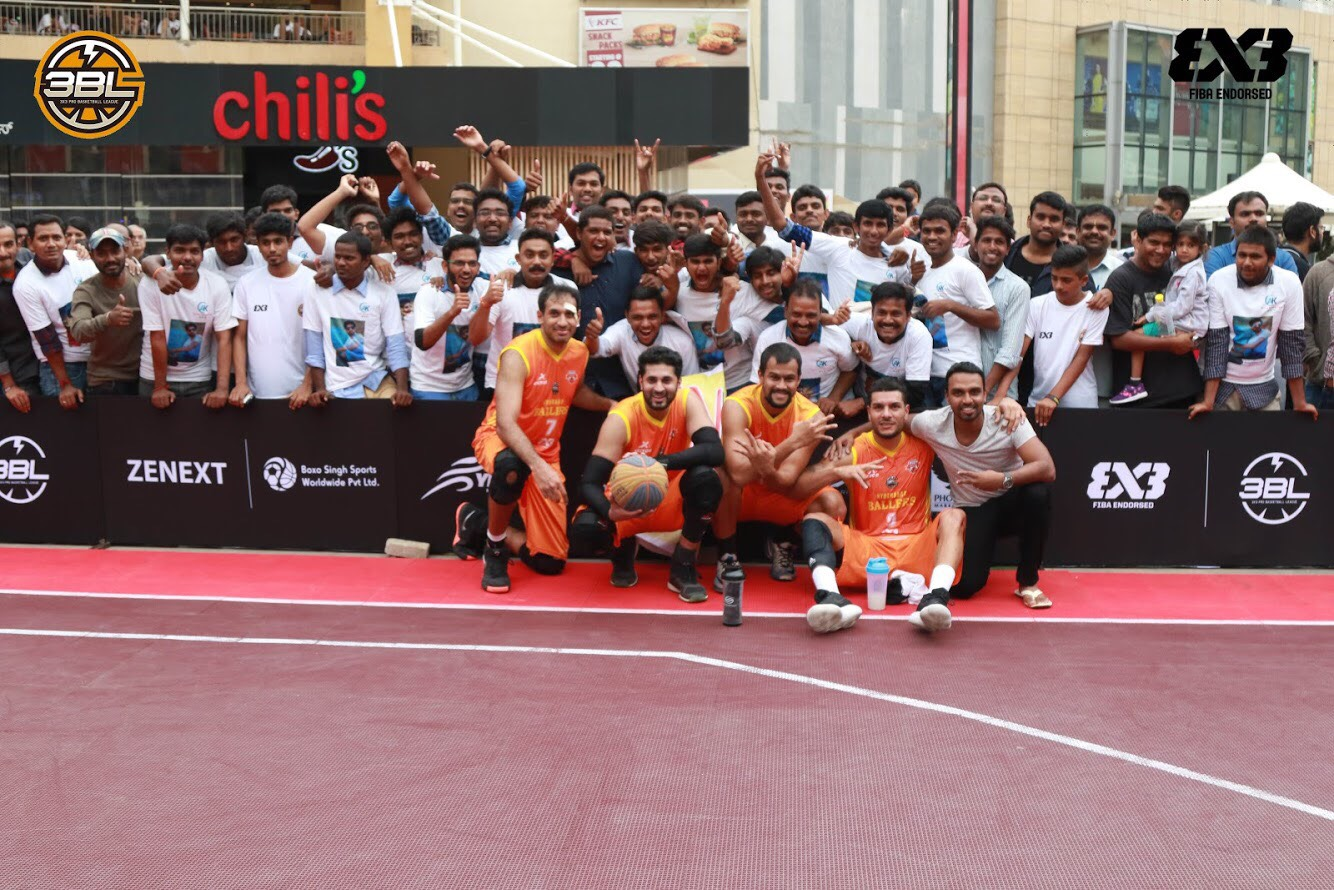 Hyderabad Ballers team with Arvind Krishna fans after a match